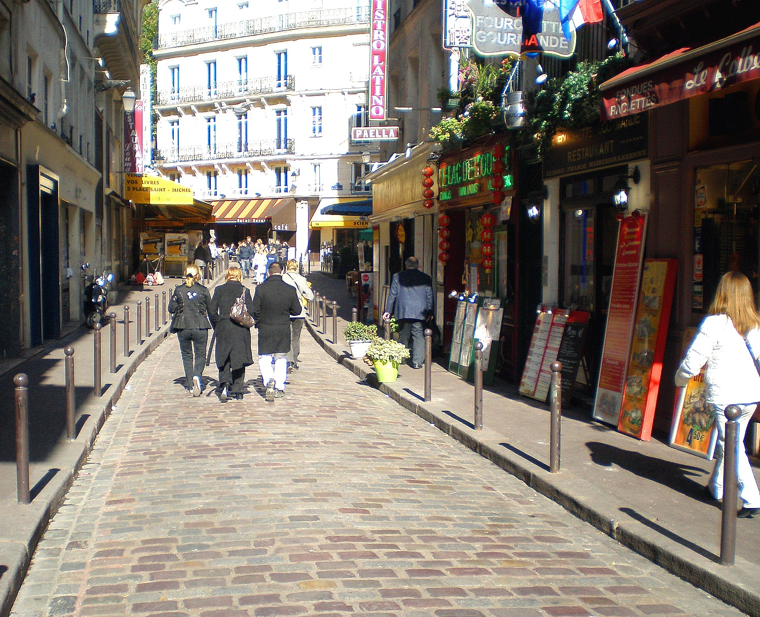 Rue de la Harpe - Paris